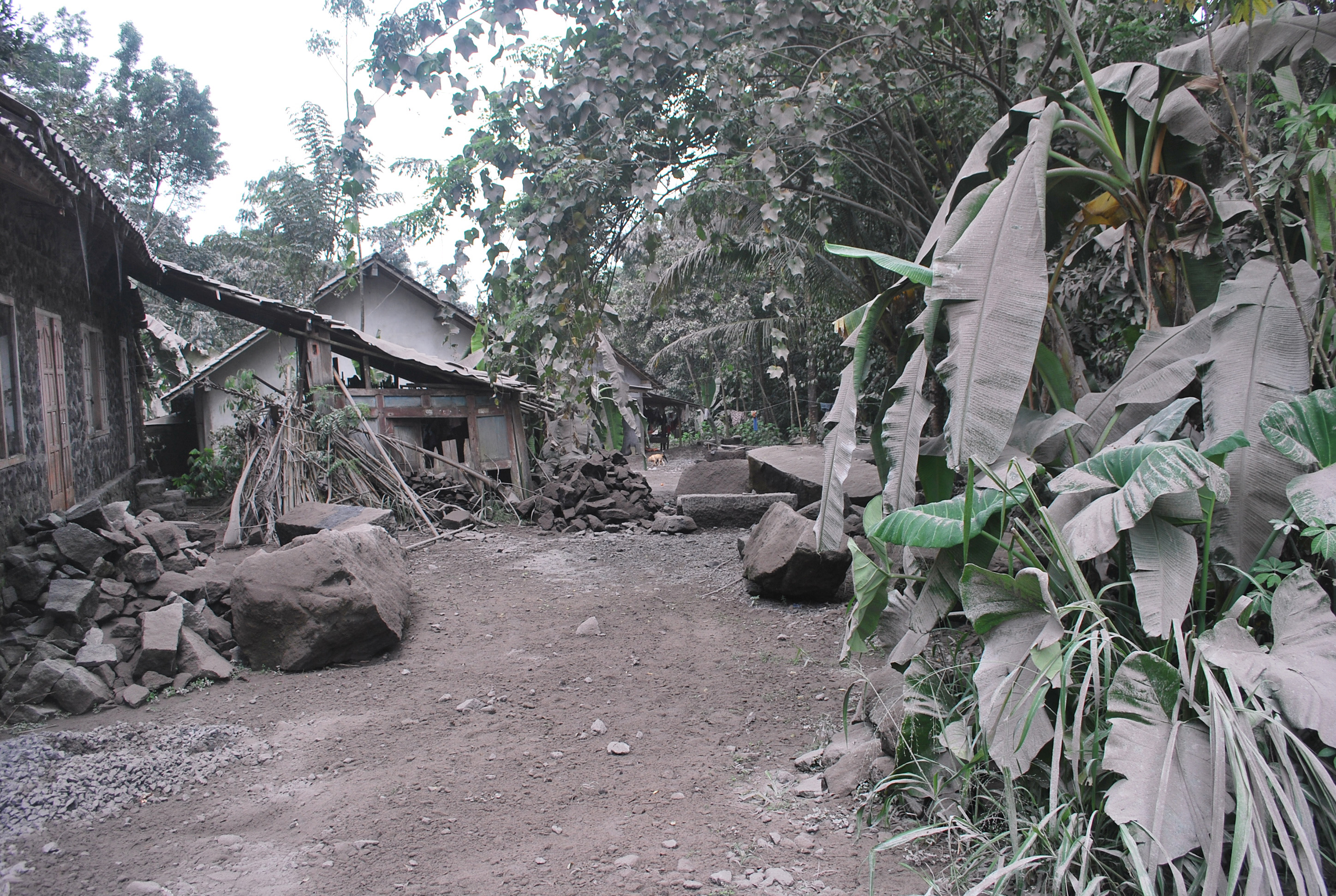 A village near Mount Merapi is covered in ash after the volcano began erupting on October 26 2010. More than 54,000 people have been displaced by the eruptions.